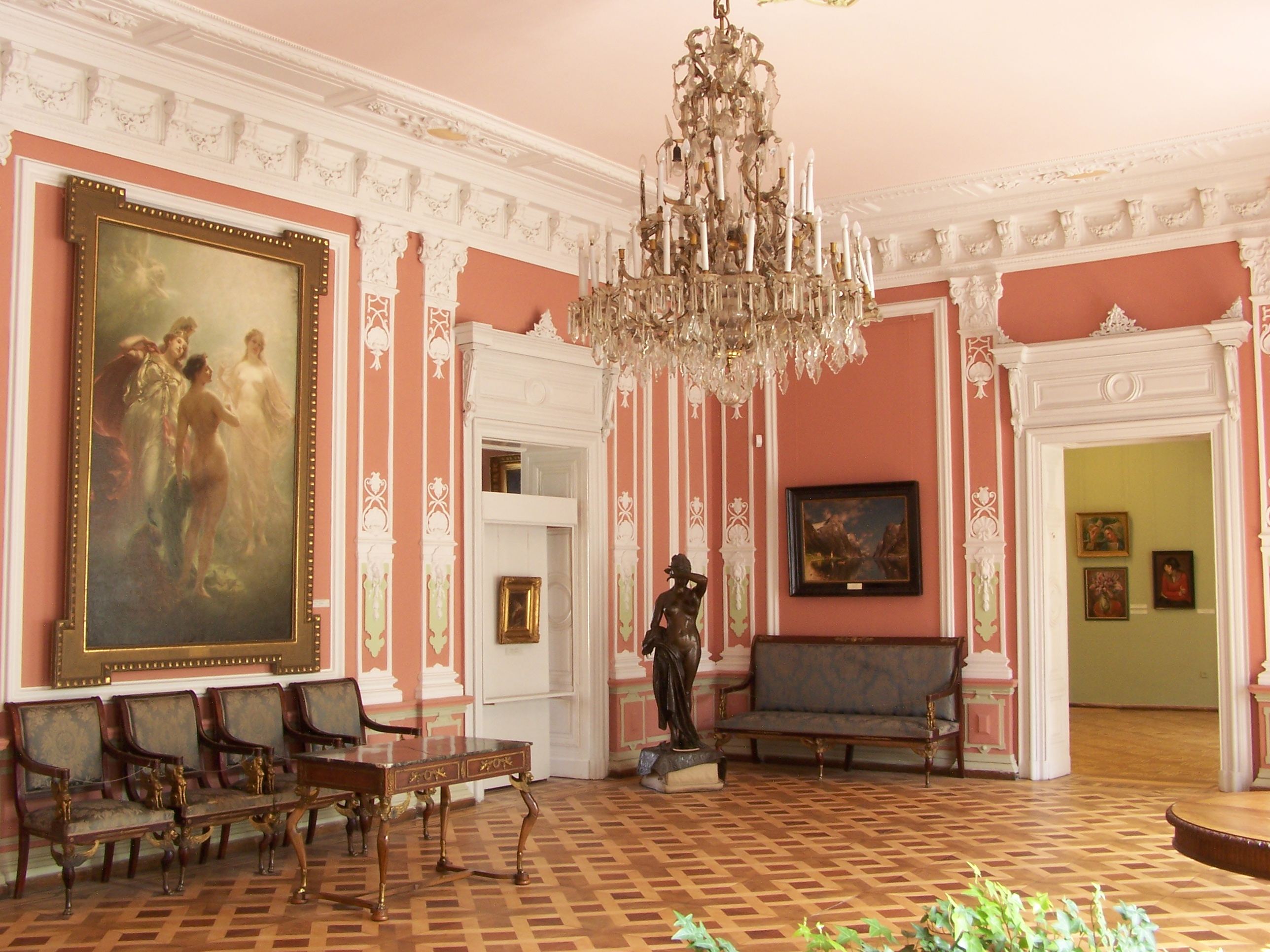 Interiors of the Gallery of Art in Lviv.